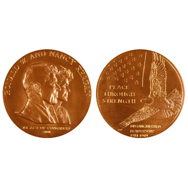 Obverse and reverse of congressional gold medal awarded to President Ronald reagan and Nancy Reagan. Retrieved from